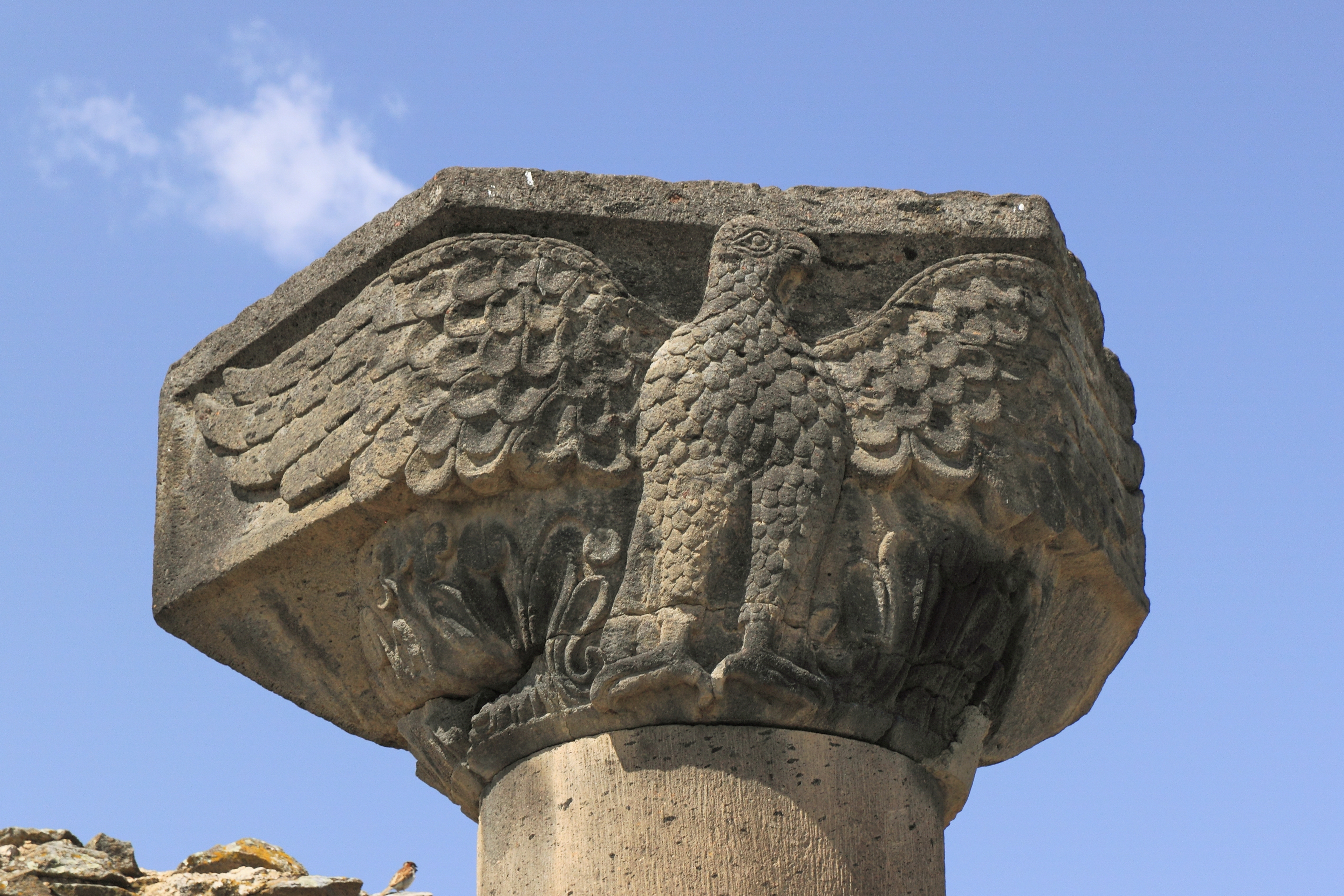 Ruins of the Zvartnots Cathedral. Zvartnots, Armavir Province, Armenia.